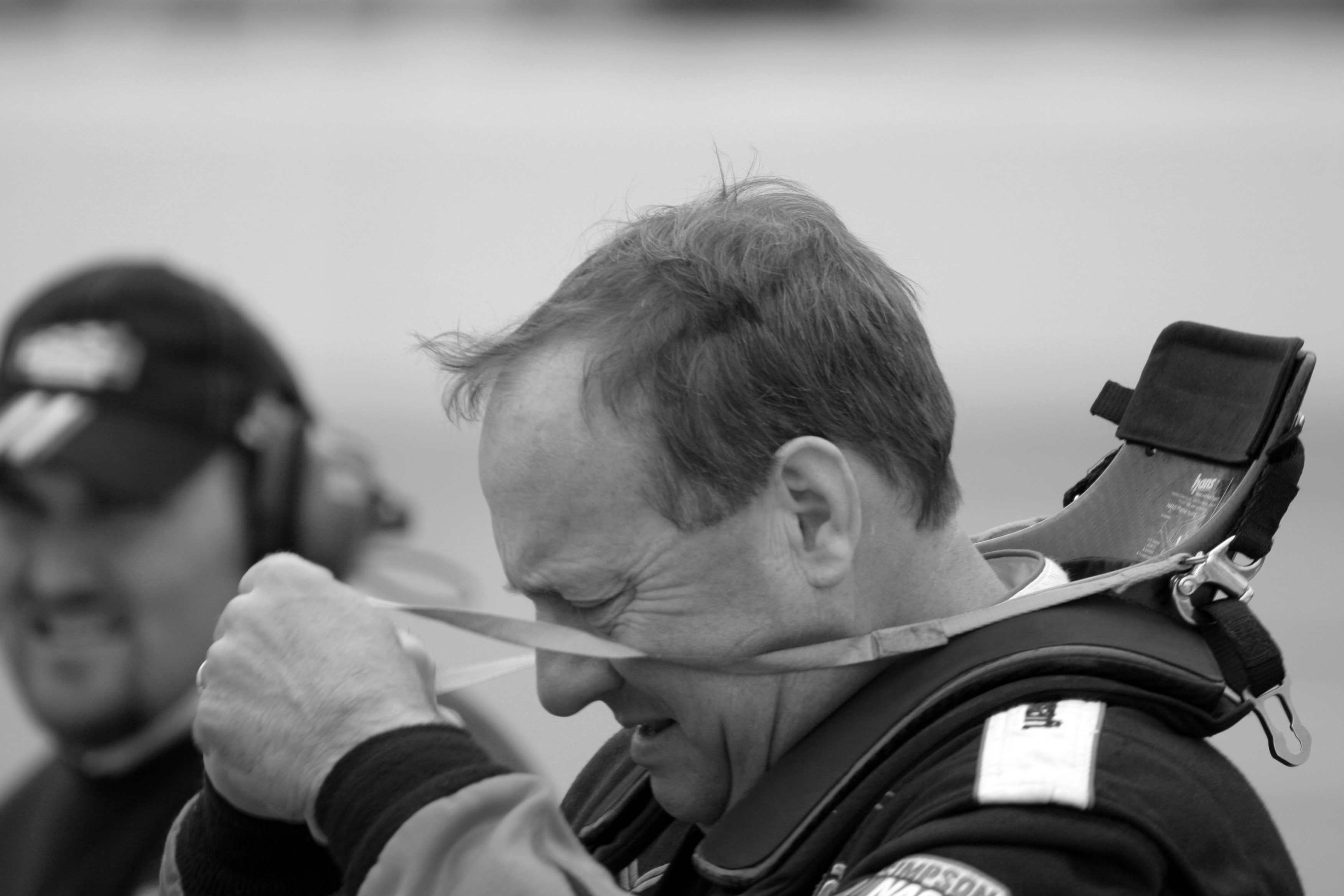 NASCAR driver Ken Schrader taking off his HANS device after Happy Hour practice at Texas Motorspeedway.